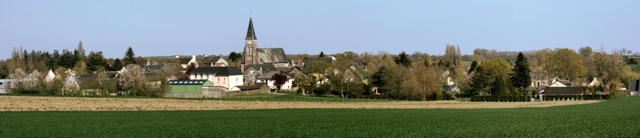 View of the village of Boistrudan, department of Ille-et-Vilaine, Brittany, France.